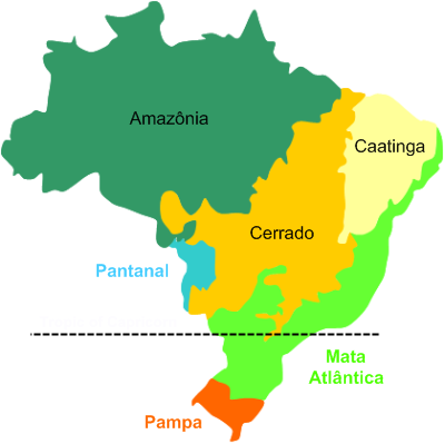 Map of biomes in brazil